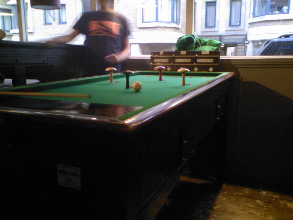 Game of bar billiards in progress